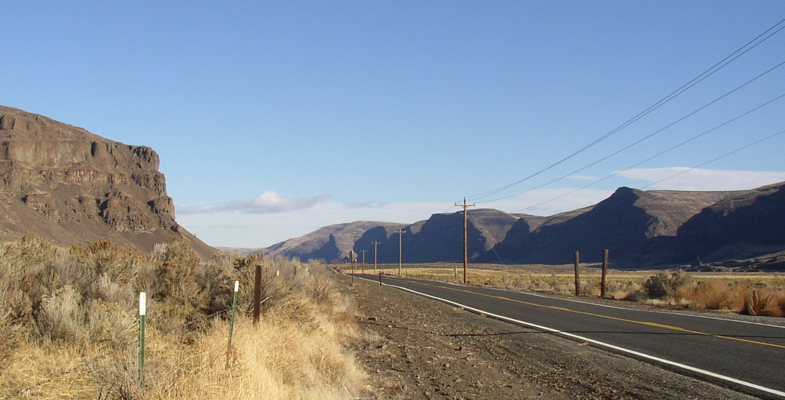 Lower Moses Coulee. Photo taken in November 2006 by uploader. All rights released. Williamborg 14:46, 18 November 2006 (UTC)